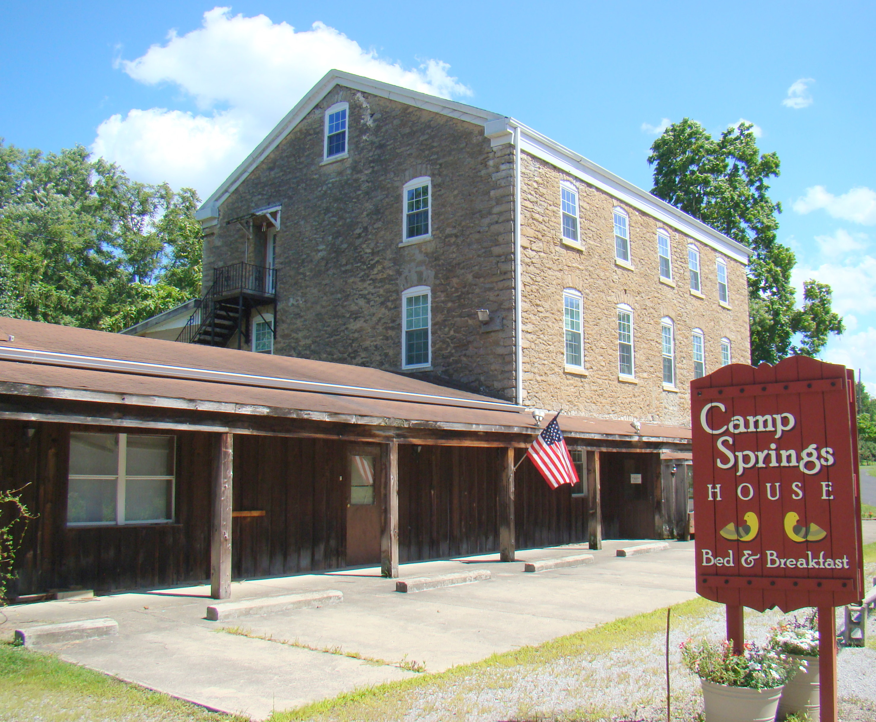 Camp Springs House is a historic inn located in Camp Springs, an unincorporated area of rural Campbell County, Kentucky.